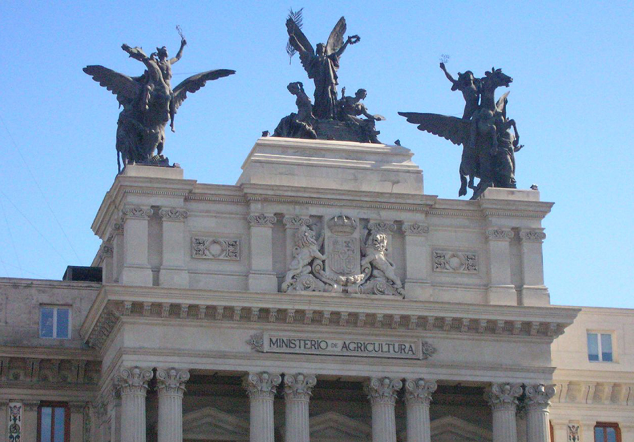 Partial view of the Spanish Ministry of Agriculture, Fisheries and Food headquarters in Madrid. At the top, the allegoric sculptural group La Gloria y los Pegasos ("The Glory and the Pegasus") by Agustí Querol Subirats (1860–1909).